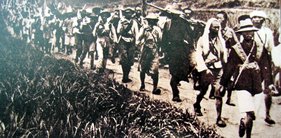 Chinese Red Army in the first anti-encirclement.